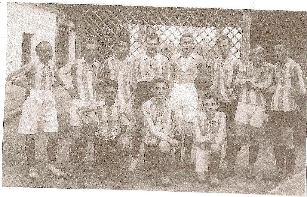 FCL DNV 1923